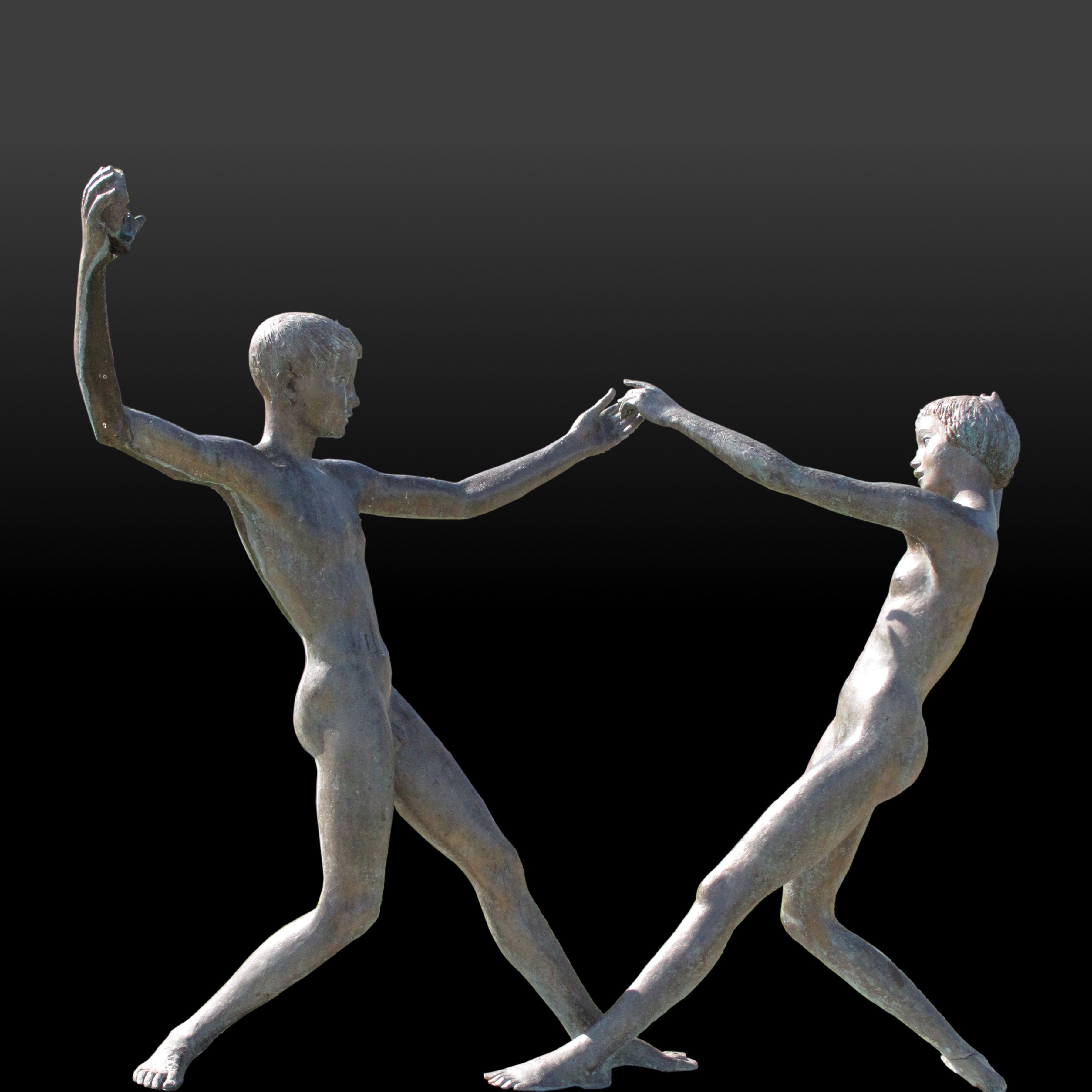 Boy and girl, by Milo Martin (1893 -1970 Morges), bronze, 1962-1963. Quai Lochmann, Morges, Switzerland.